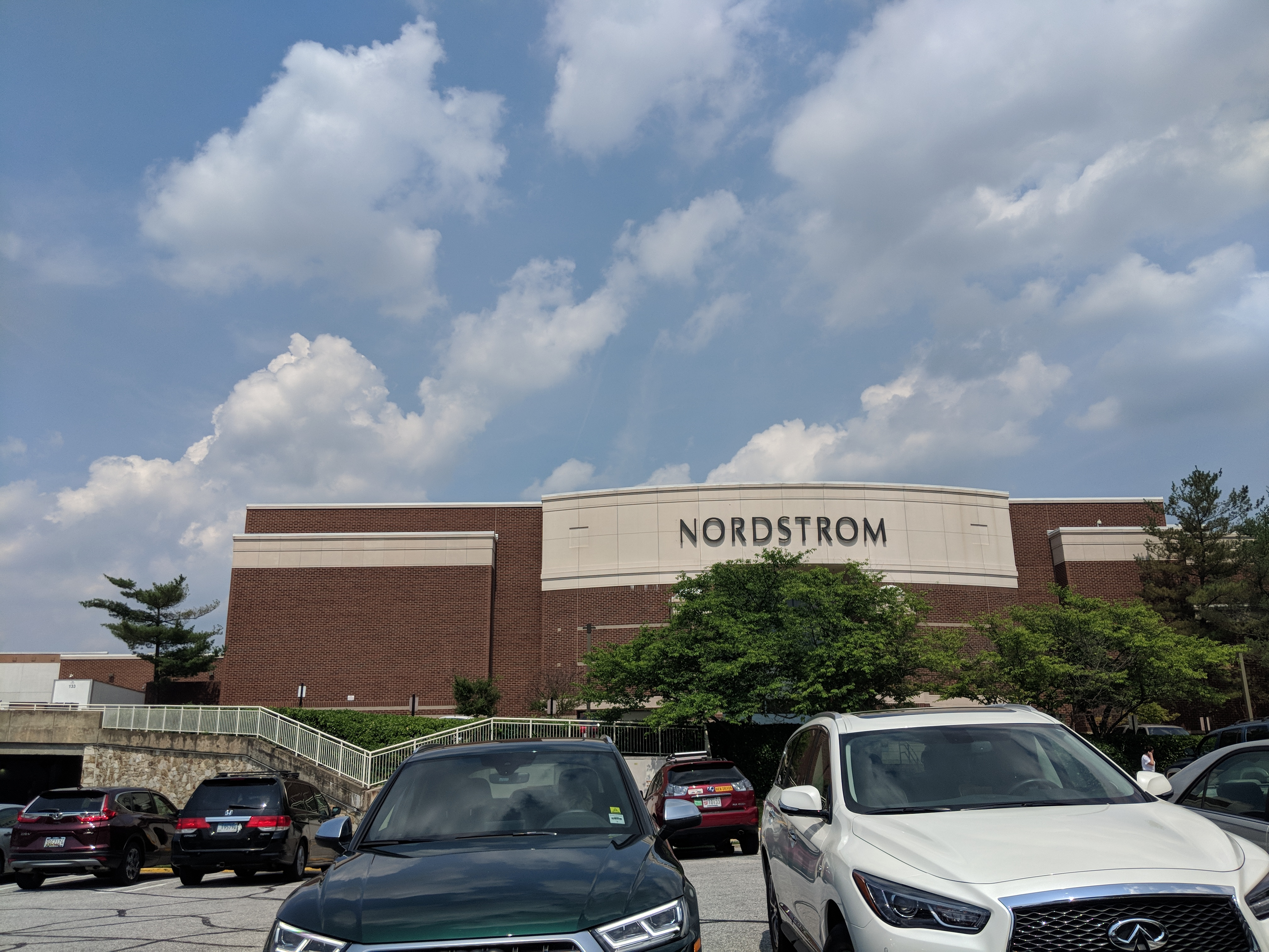 View of the Westfield Montgomery Mall exterior, Nordstrom entrance in June 2018.